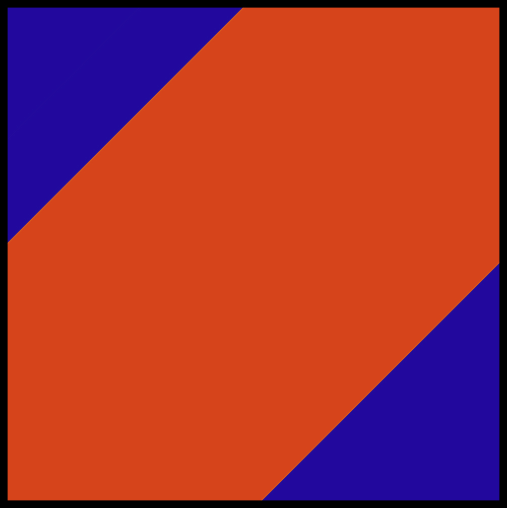 Colours of the Gujarat Lions team in the Indian Premier League.